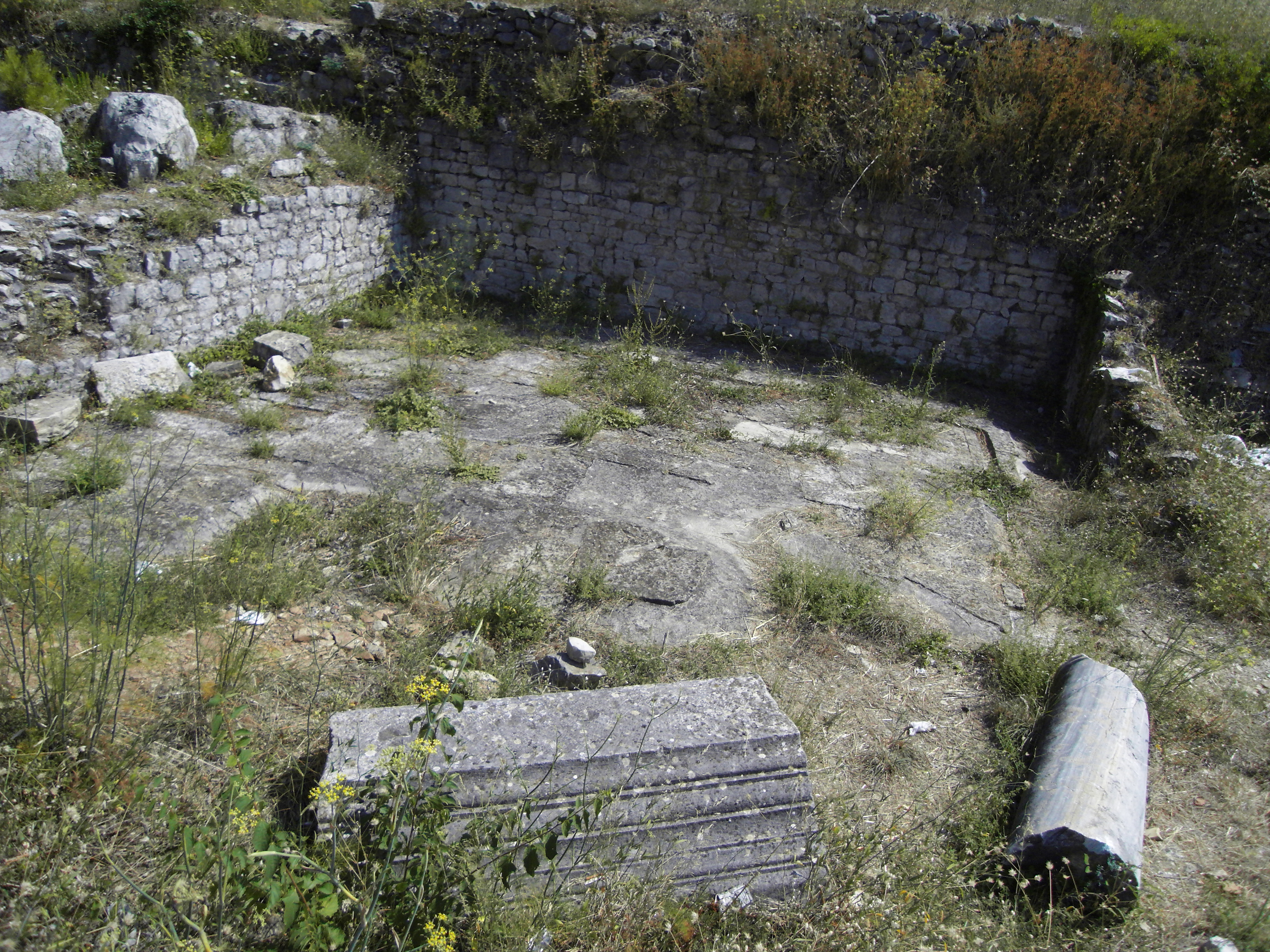 Cavtat Archeological site